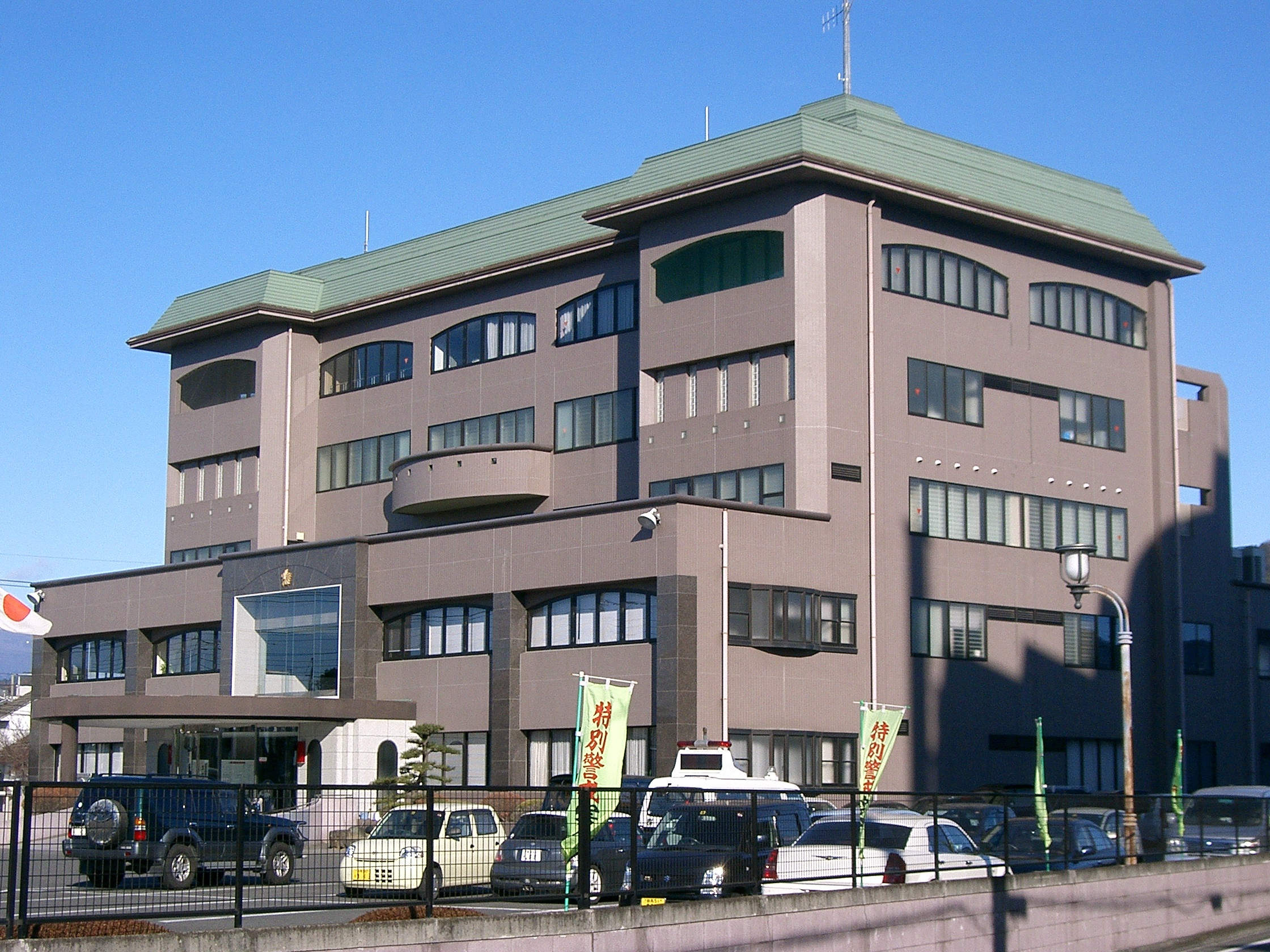 Kiryu Police Station ; main office